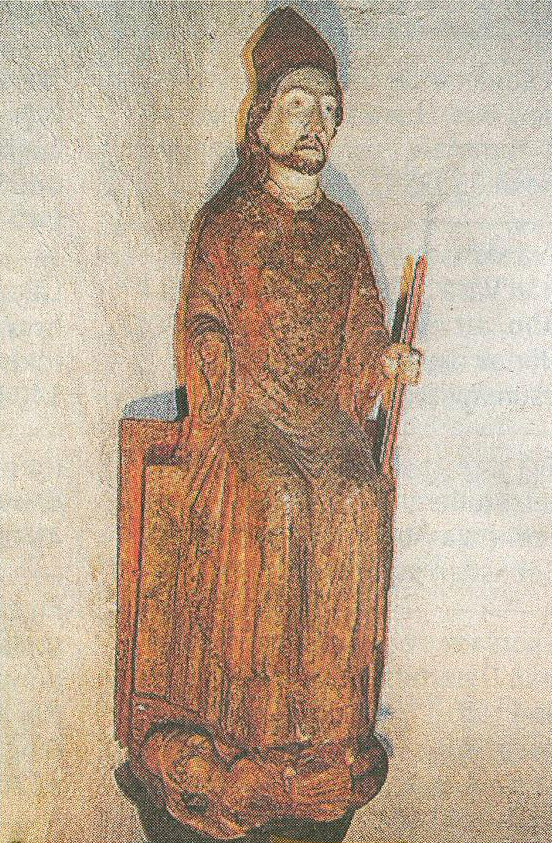 Bishop Henry of Uppsala with his murderer Lalli at his feet. Wooden statue in the church of Pyhtää, Finland.